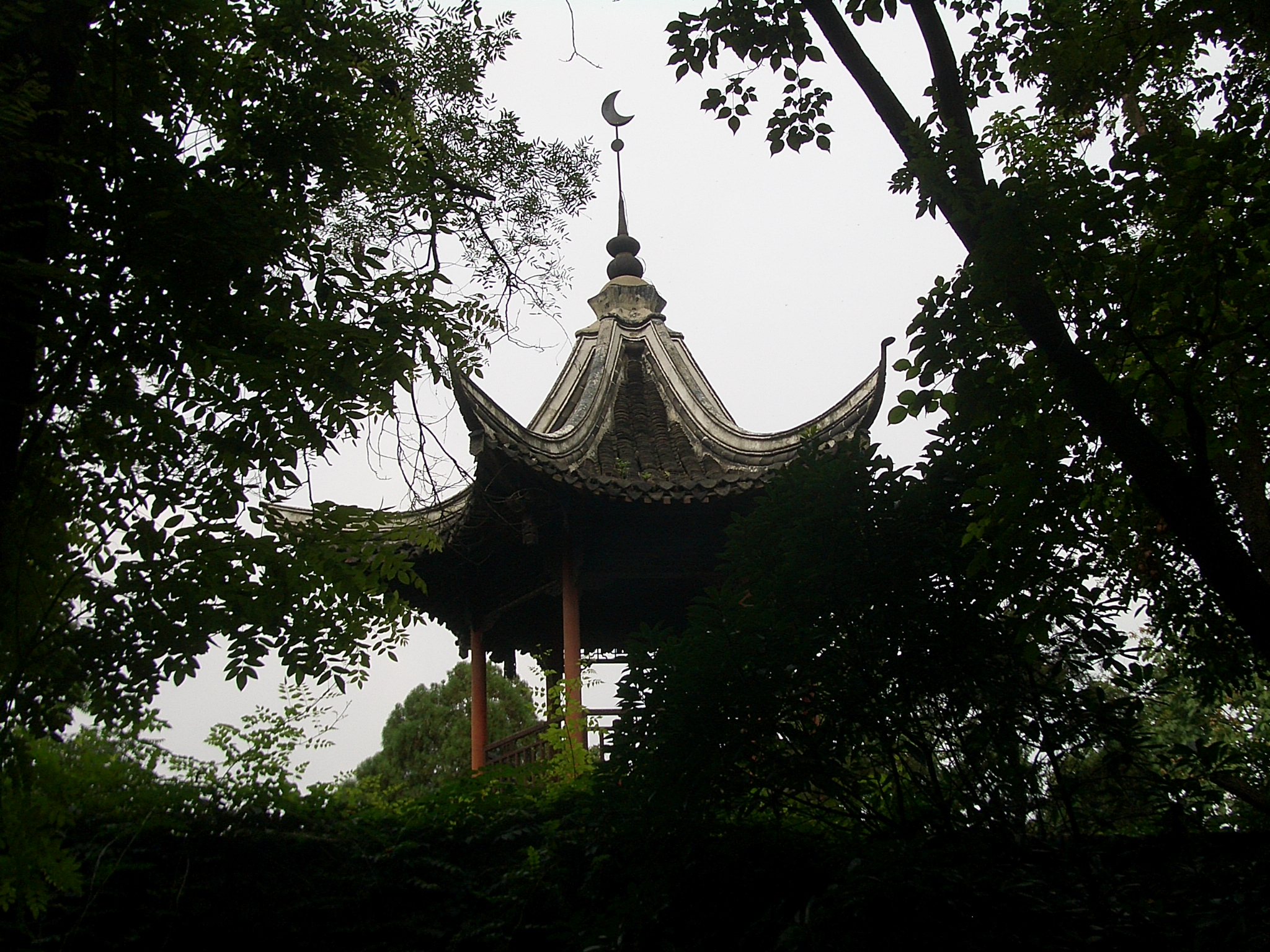 On the grounds of the Yangzhou Mosque. Minaret (?)